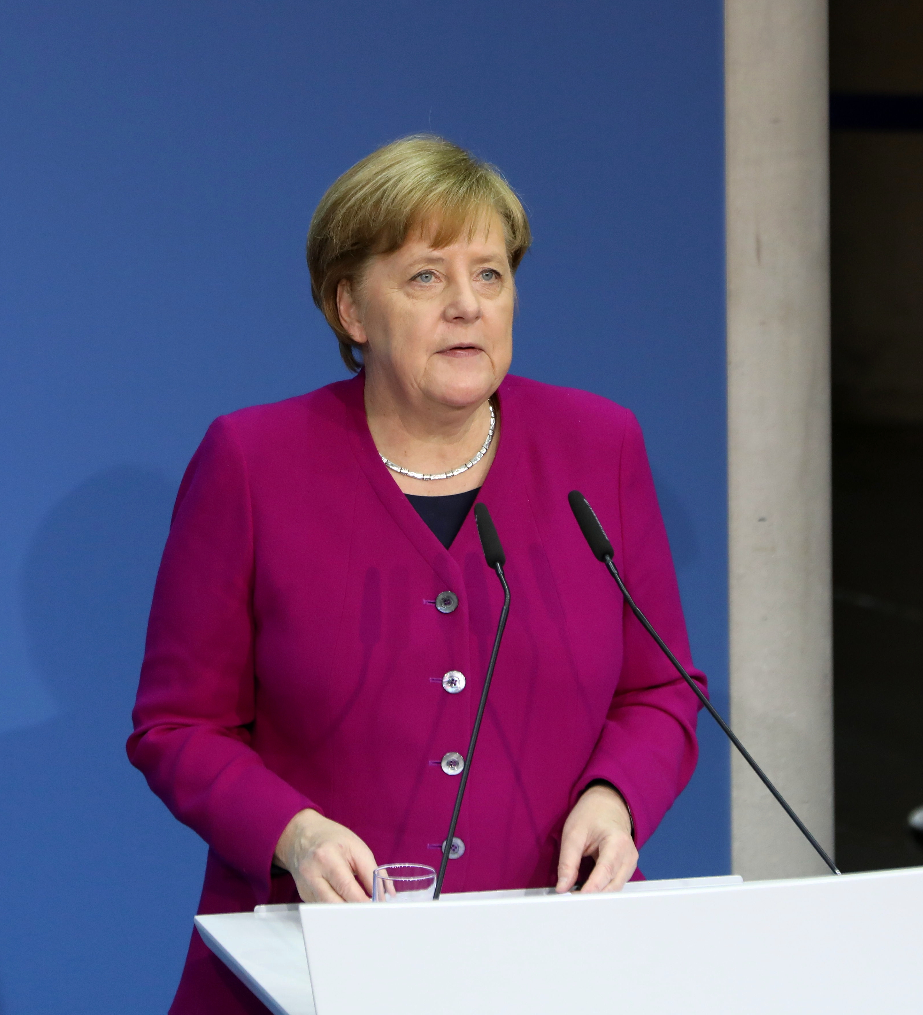 Signing of the coalition agreement for the 19th election period of the Bundestag: Angela Merkel